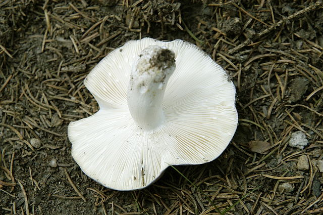 Russula spec. (maybe Russula cyanoxantha) from Commanster, Belgium. The determination of the species shown in this picture has been verified.